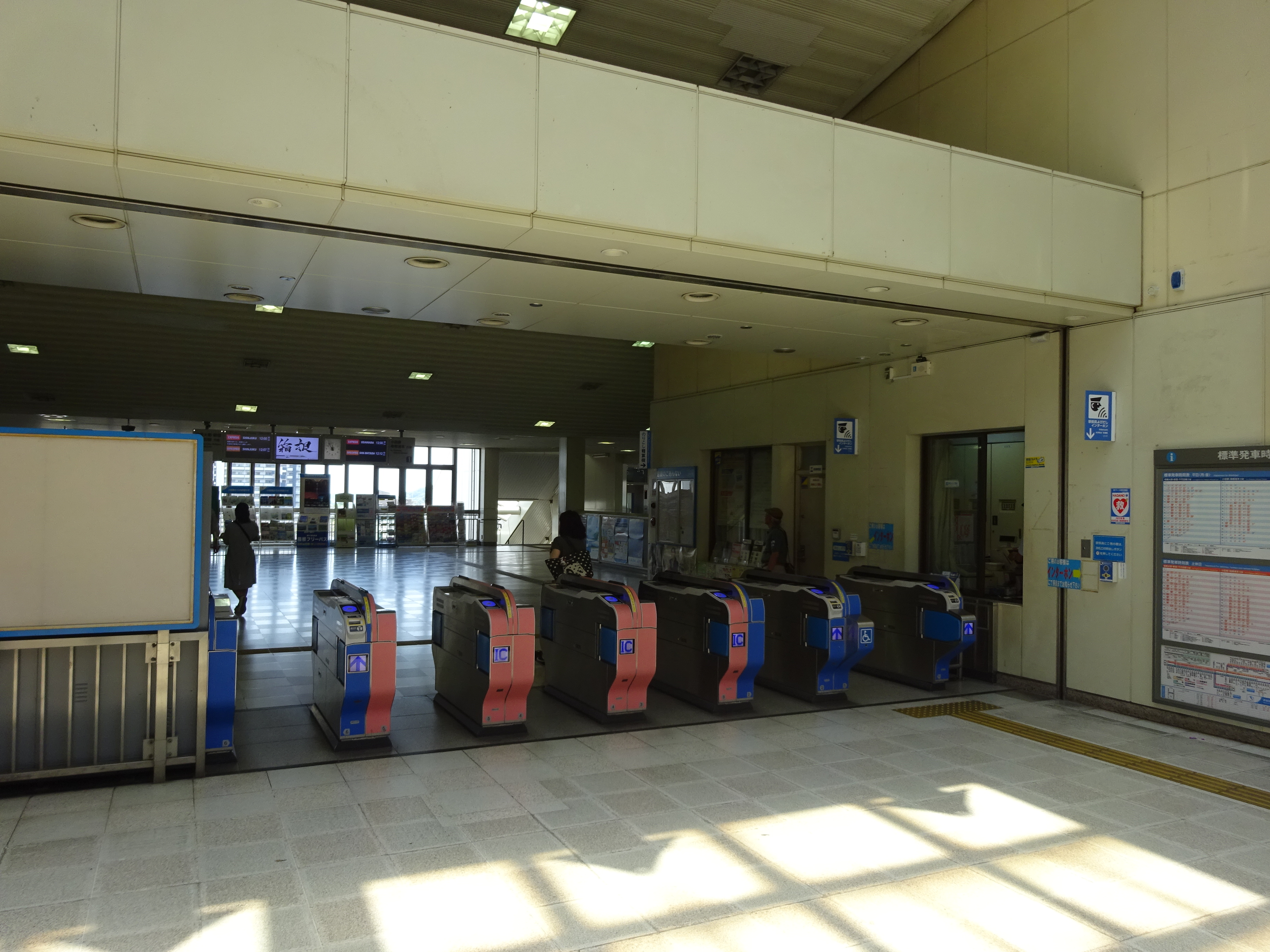 Ticket barriers of Shibusawa Station